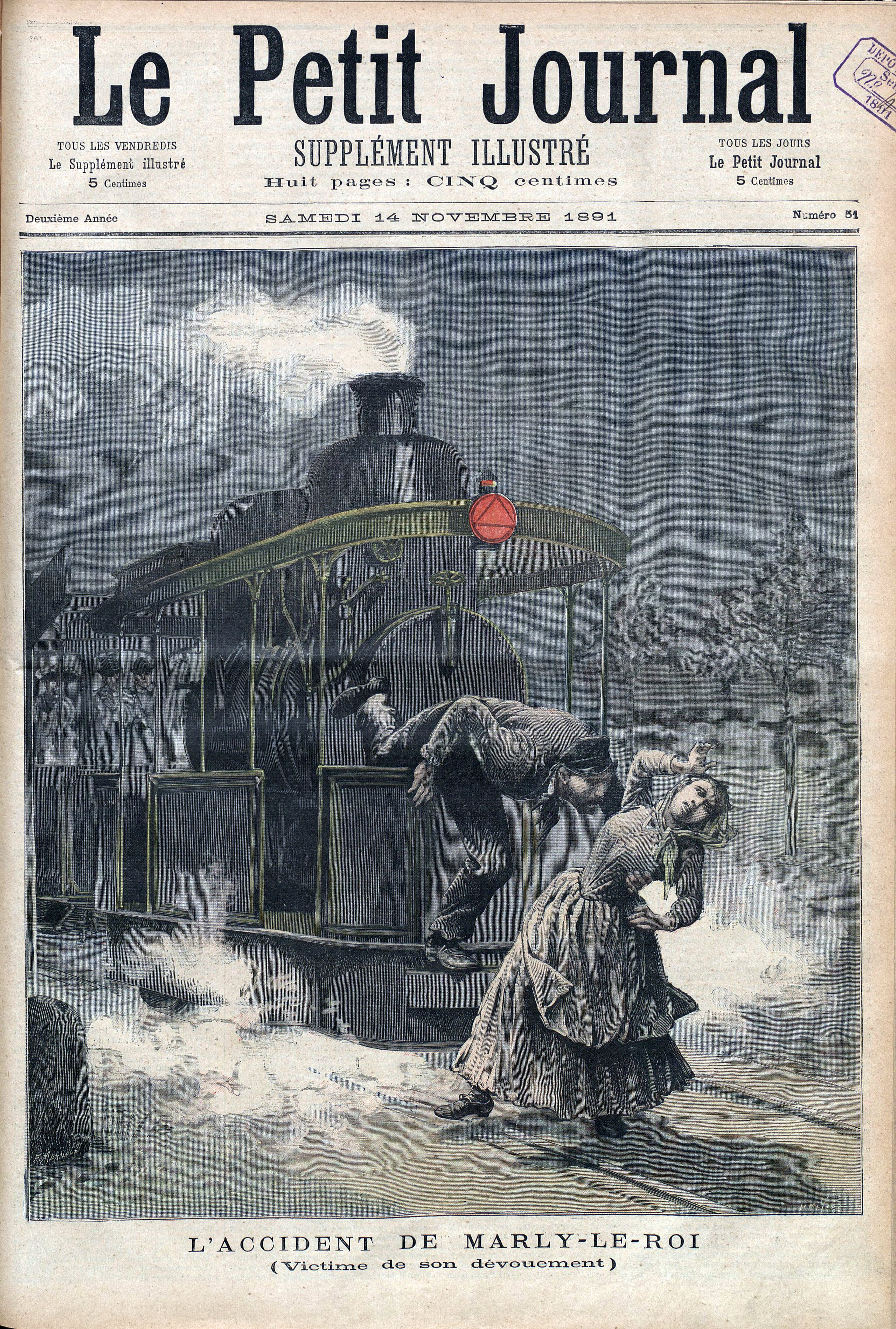 The accident of Marly-le-Roi - Victim of his dedication - Very exact reproduction of the end of the mechanic, Cané, who died attempting to save a woman from being crushed by the train.